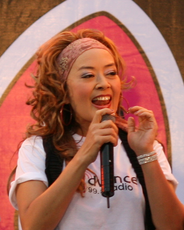 Thai actress Naowarat Yuktanan appearance as DJ of Advance Radio.